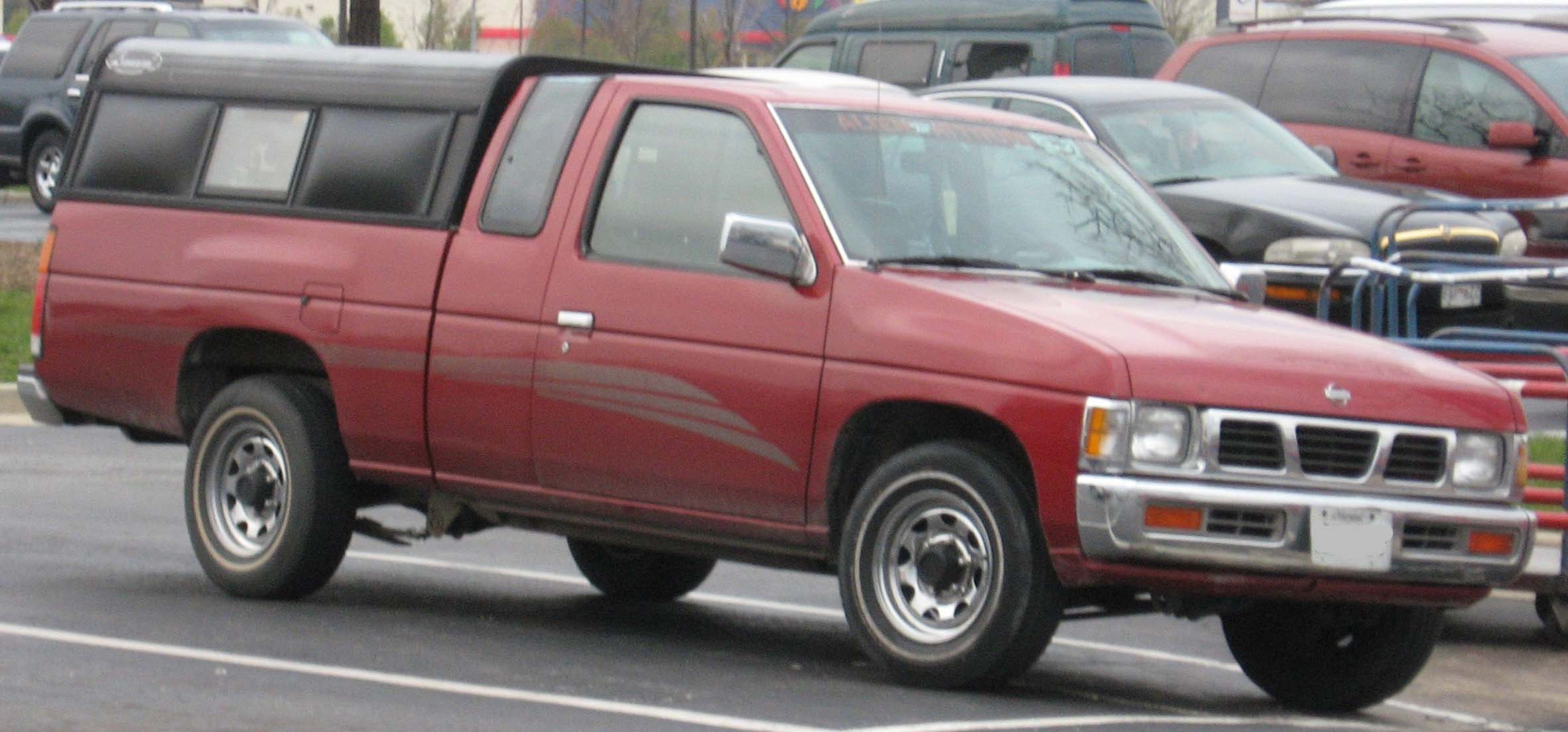 1993-1997 Nissan Hardbody photographed in USA.